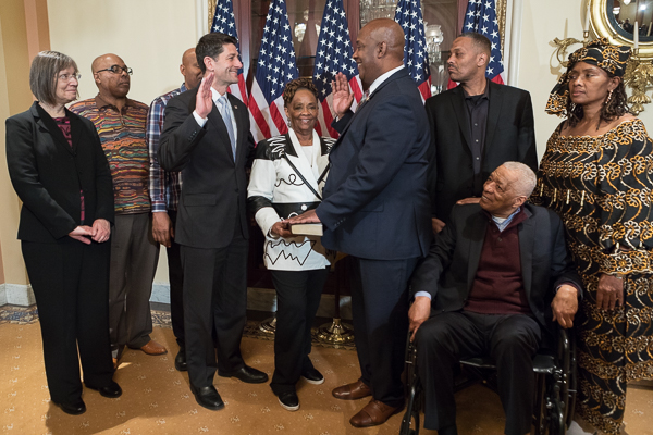 Speaker Ryan and Rep. Dwight Evans (D-PA)